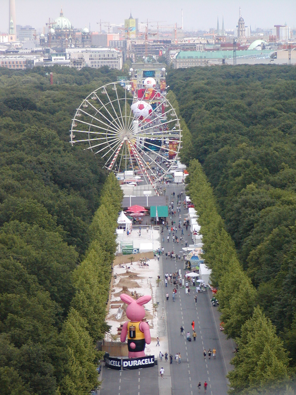 The main place for public viewing of the 2006 FIFA World Cup in Berlin; called "Fanmeile"